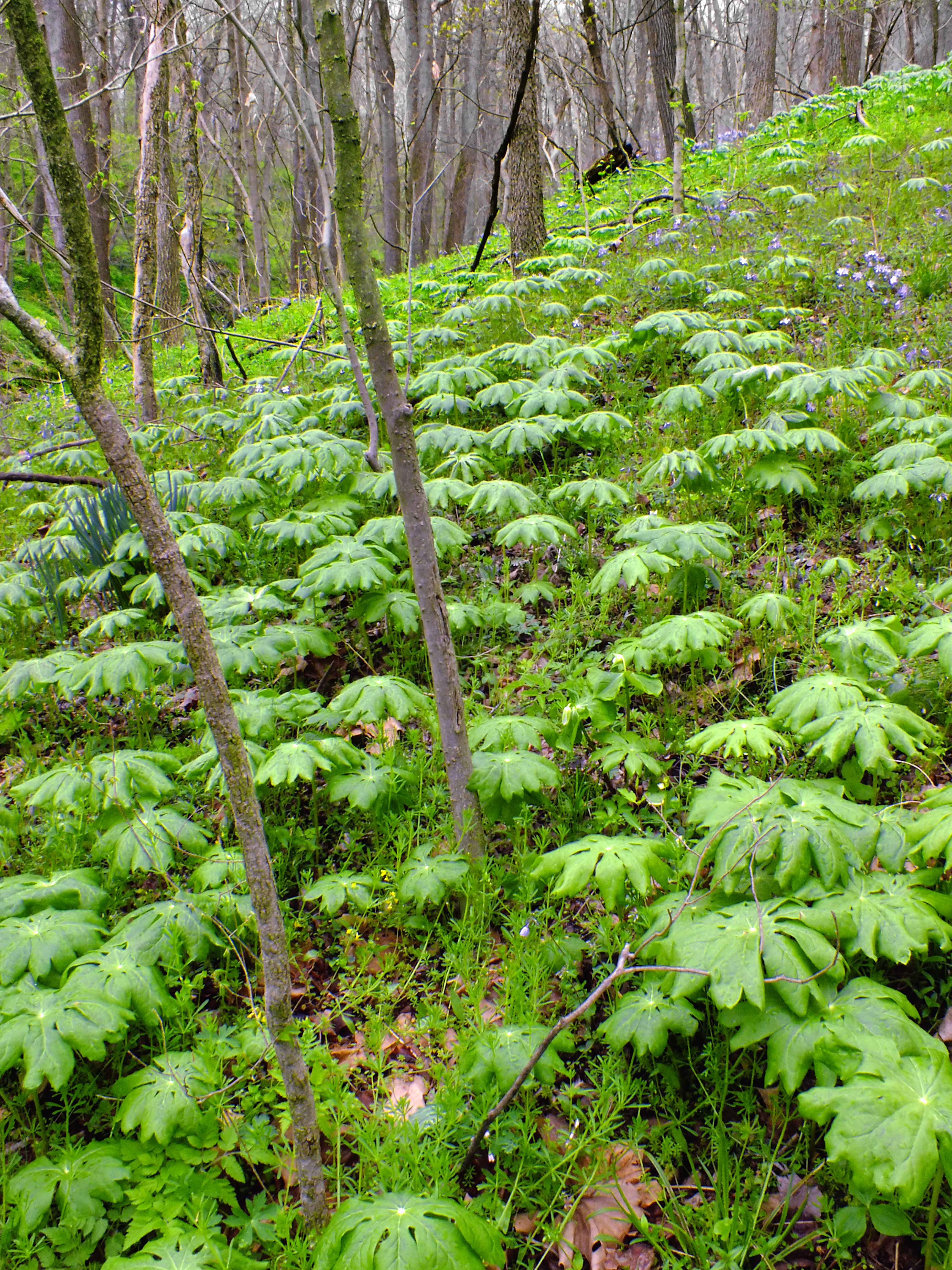 Mayapples Podophyllum peltatum, Lancaster County, within the Shenks Ferry Wildflower Preserve.